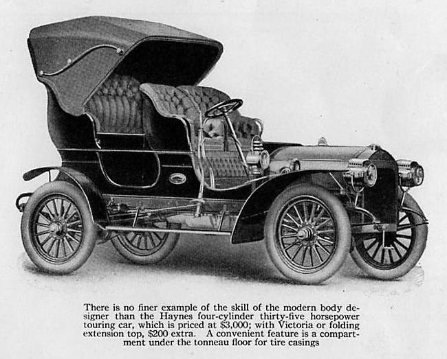 Manufactured in Kokomo, Indiana, the Haynes was featured in Country Life. Average wages in 1905, I read, were only 22 cents per hour.